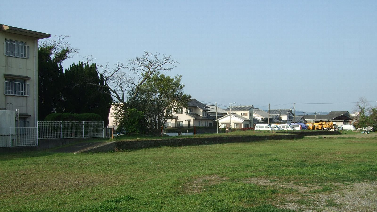 The ruin of Hososhima Station, Hyuga City, Miyazaki, Japan.